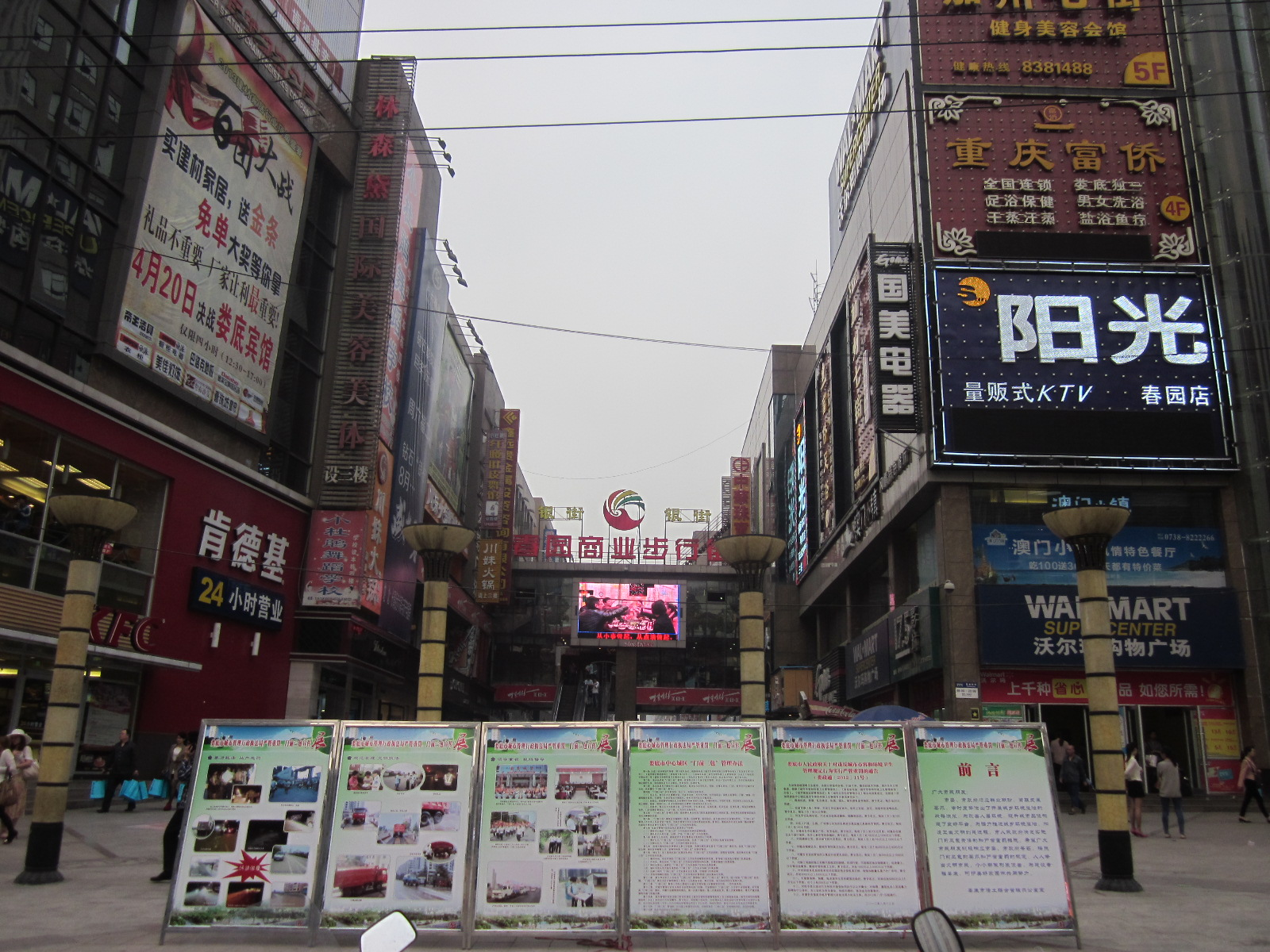 Loudi Commercial Pedestrian Street.